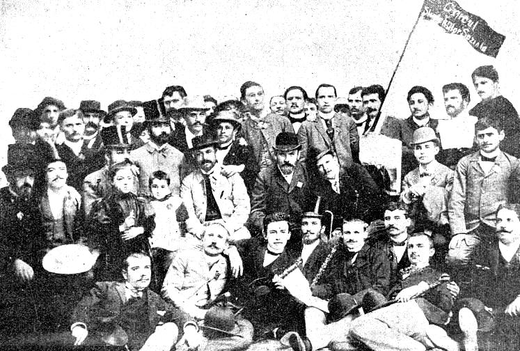 Group photograph of the Bucharest socialist circle. Constantin Mille, holding his two daughters in his lap, is third seated from the left in the second row; next in line, seated: Vasile Morţun and Constantin Dobrogeanu-Gherea. Anton "Toni" Bacalbaşa is directly behind them, holding his hand on Morţun's shoulder. Artur Stavri is first seated from the left in the same row as Mille, Morţun and Gherea. Top row, standing, from the right: Ion Păun-Pincio (second), Henri Sanielevici (third), Henric Streitman (fourth), Simion Sanielevici (seventh). Front row, reclining, from the right: Alexandru Ionescu (first), C. Z. Buzdugan (third).